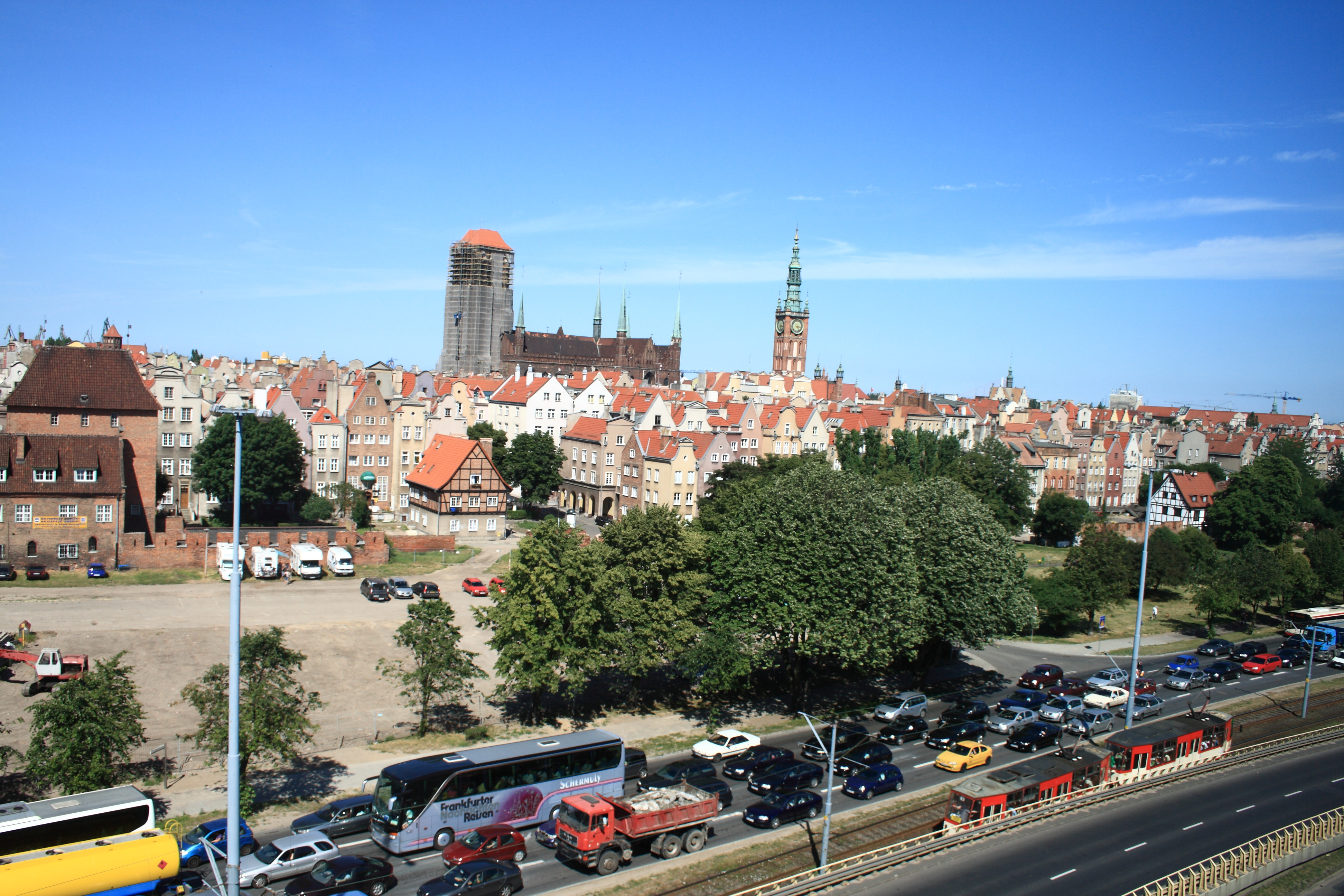 A view of Gdańsk from the 6th floor of dorm 6, where many Wikimania attendees stayed. Picture taken in Gdańsk before Wikimania 2010 conference.